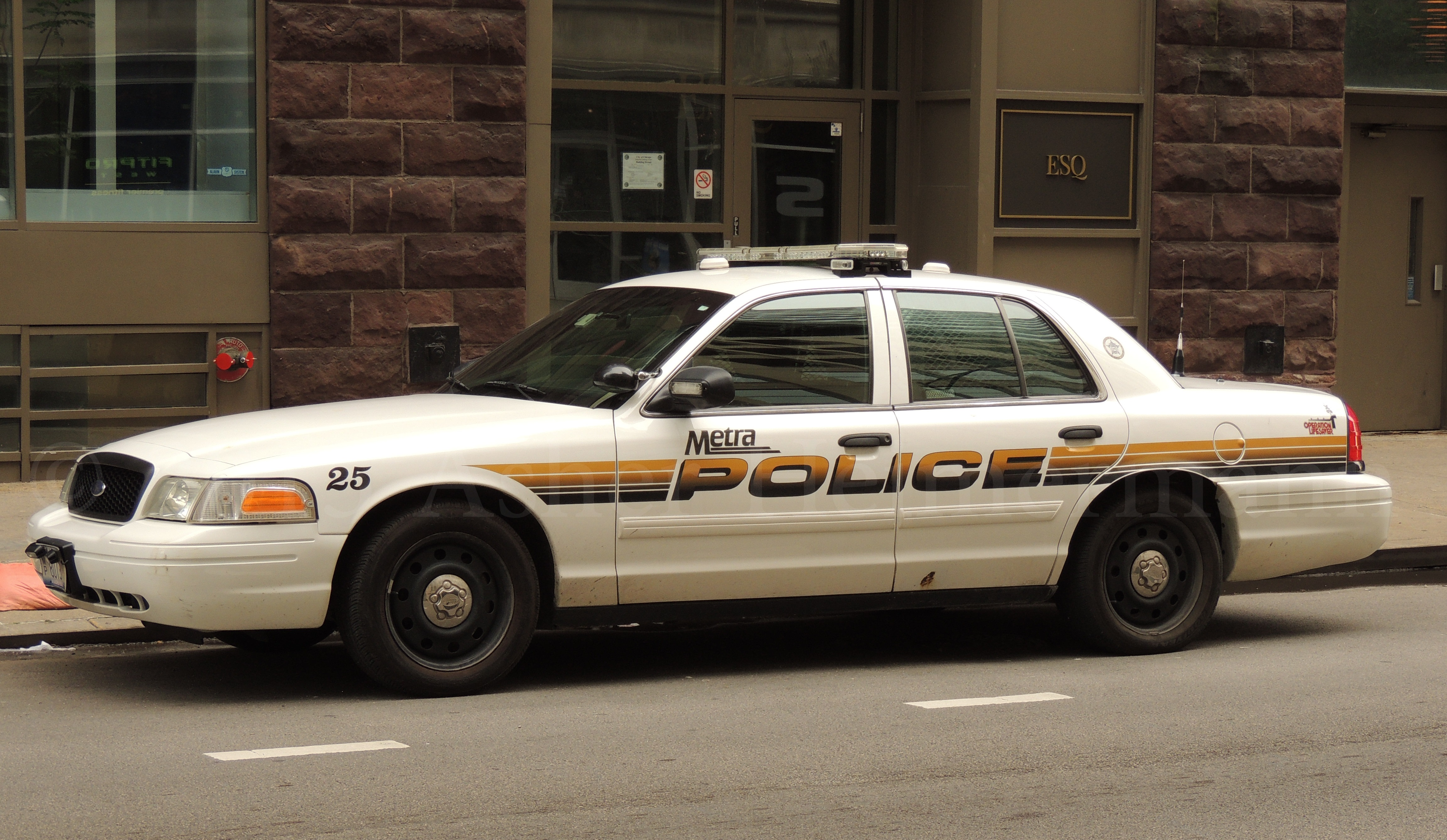 A Metra Police patrol car. Photo taken by Asher Heimermann.